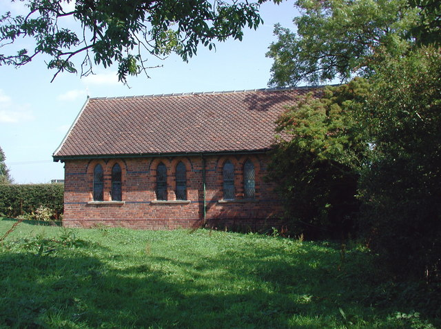 St James Church, Old Ellerby, Parish of Ellerby, East Riding of Yorkshire, England.Looking east-northeast from the public footpath to The Green. The tiny church on Crab Tree Lane was built in 1889 to designs by Smith & Broderick of Hull. A bellcot was removed from the building in about 1940.